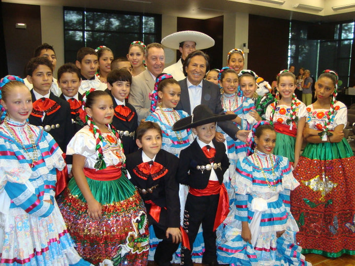 Con mi amigo el Ex Presidente del Perú, Alejandro Toledo compartiendo con los talentosos niños que participaron de presentaciones artísticas en el festival, ensañaron por mucho tiempo, pero estuvieron muy contentos de poder presentar sus actos, fueron realmente muy buenos